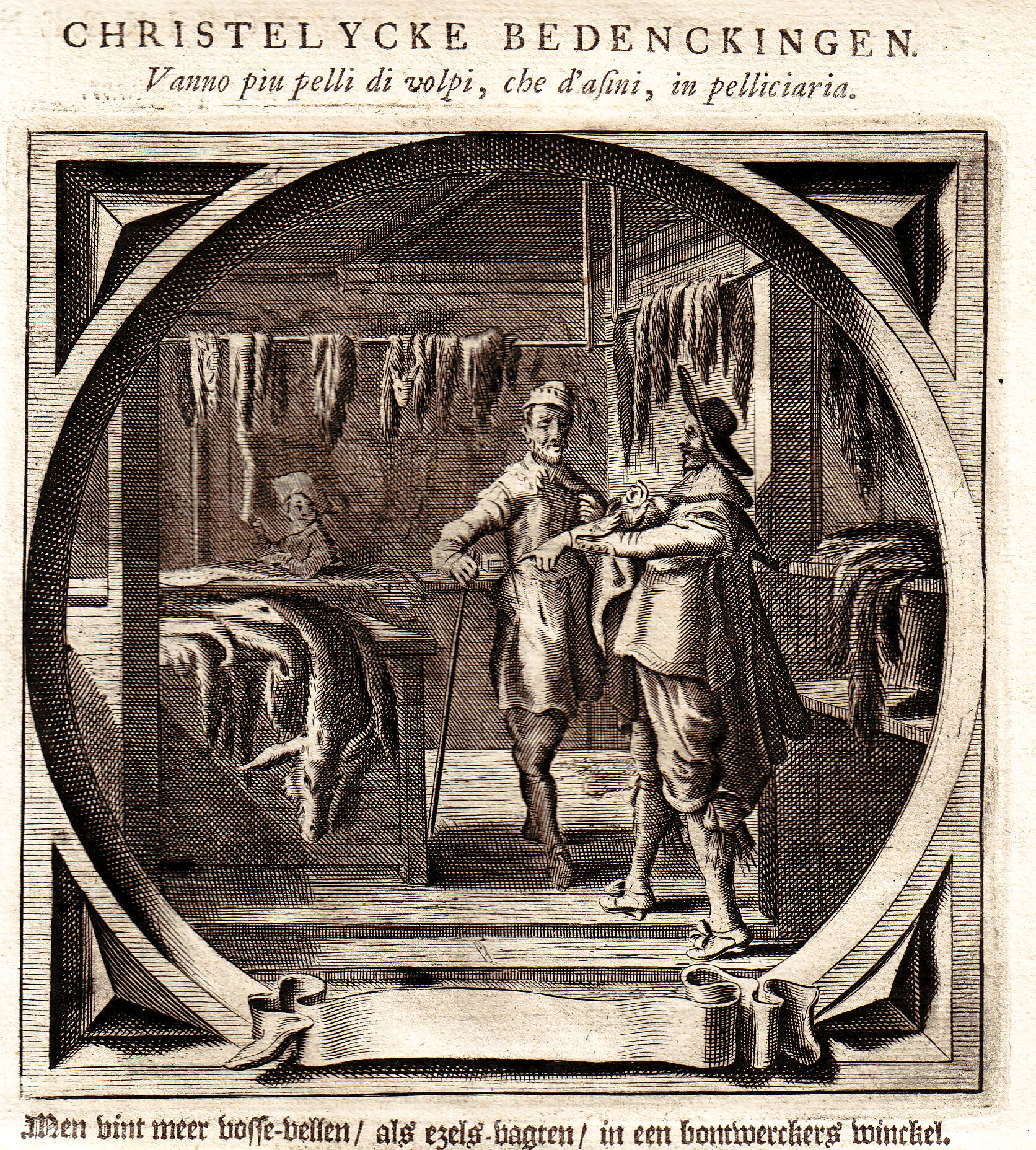 Furriers shop (Dutch: You find more fox skins then donkey skins in a furriers shop).